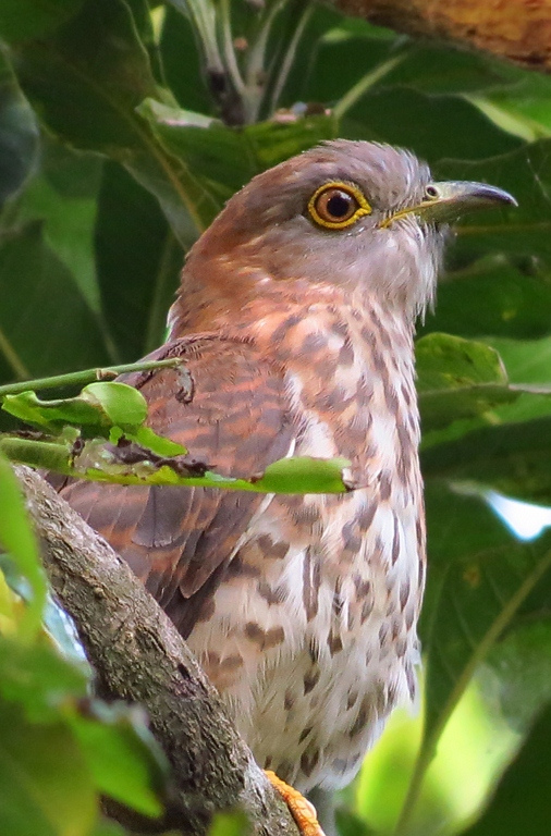 Birds, fauna, wildlife of West Bengal India